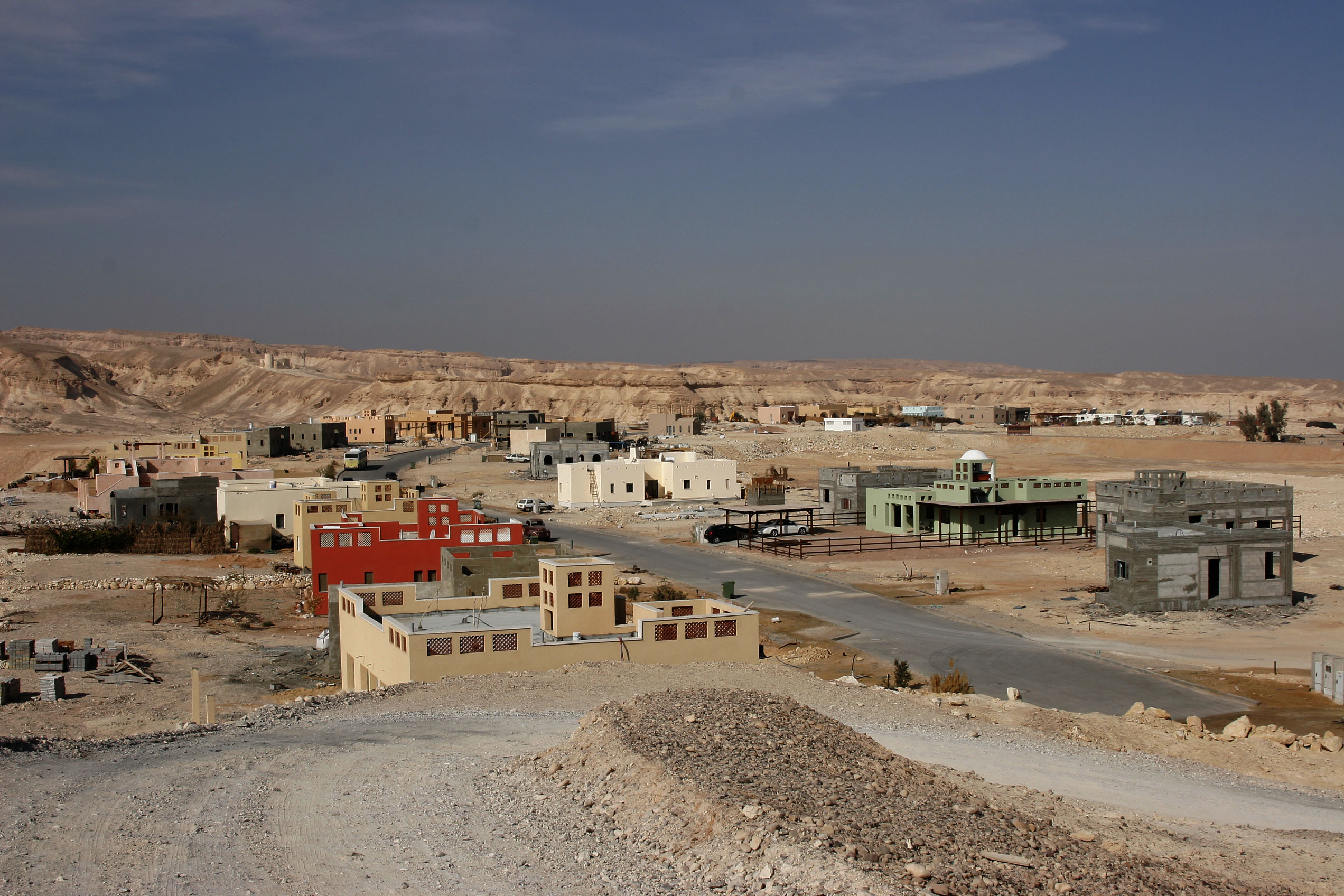 The first buildings of Tzukim, 2007.